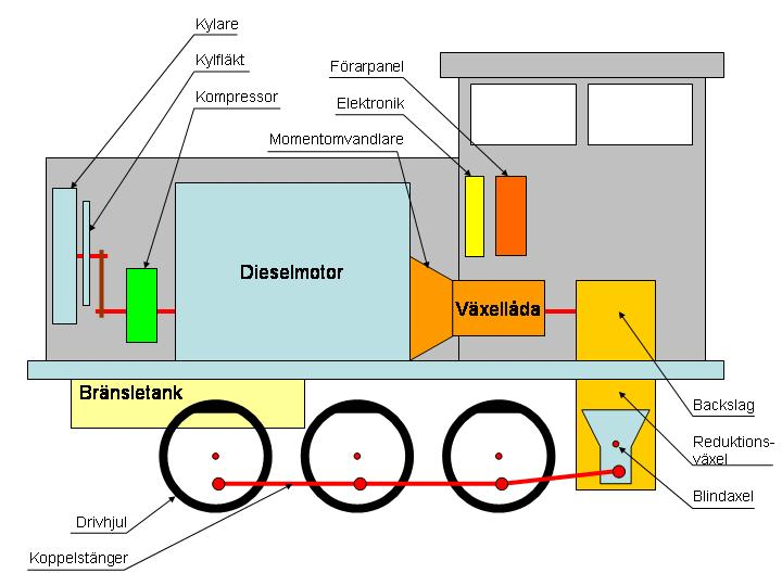 Chart of a small diesel hydraulic locomotive